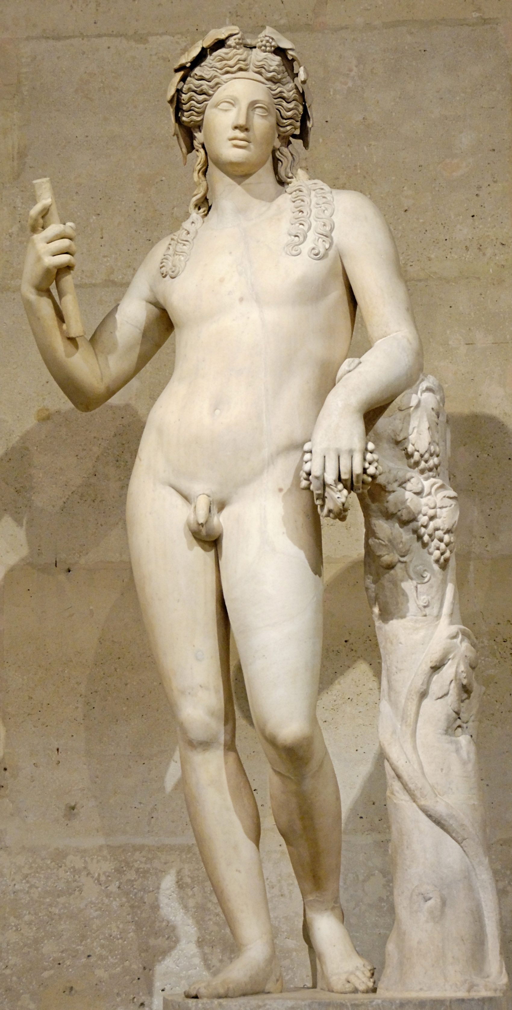 Statue of Dionysus. Marble, 2nd century CE (arms and legs were heavily restored in the 18th century), found in Italy.